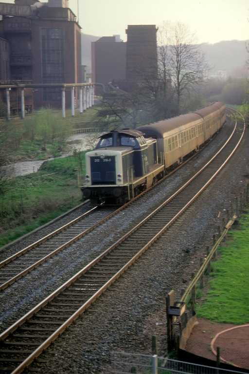 A German Train (DB 212 318-0) on the Way from Essen-Kuperdreh to Nierenhof near by Eisenhammer.